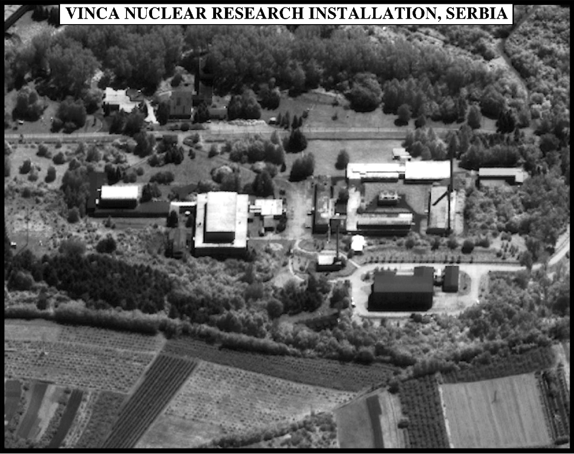 Assessment photograph of the Vinca Nuclear Research Installation, Serbia, used by Joint Staff Vice Director for Strategic Plans and Policy Maj. Gen. Charles F. Wald, U.S. Air Force, during a press briefing on NATO Operation Allied Force in the Pentagon on May 29, 1999.